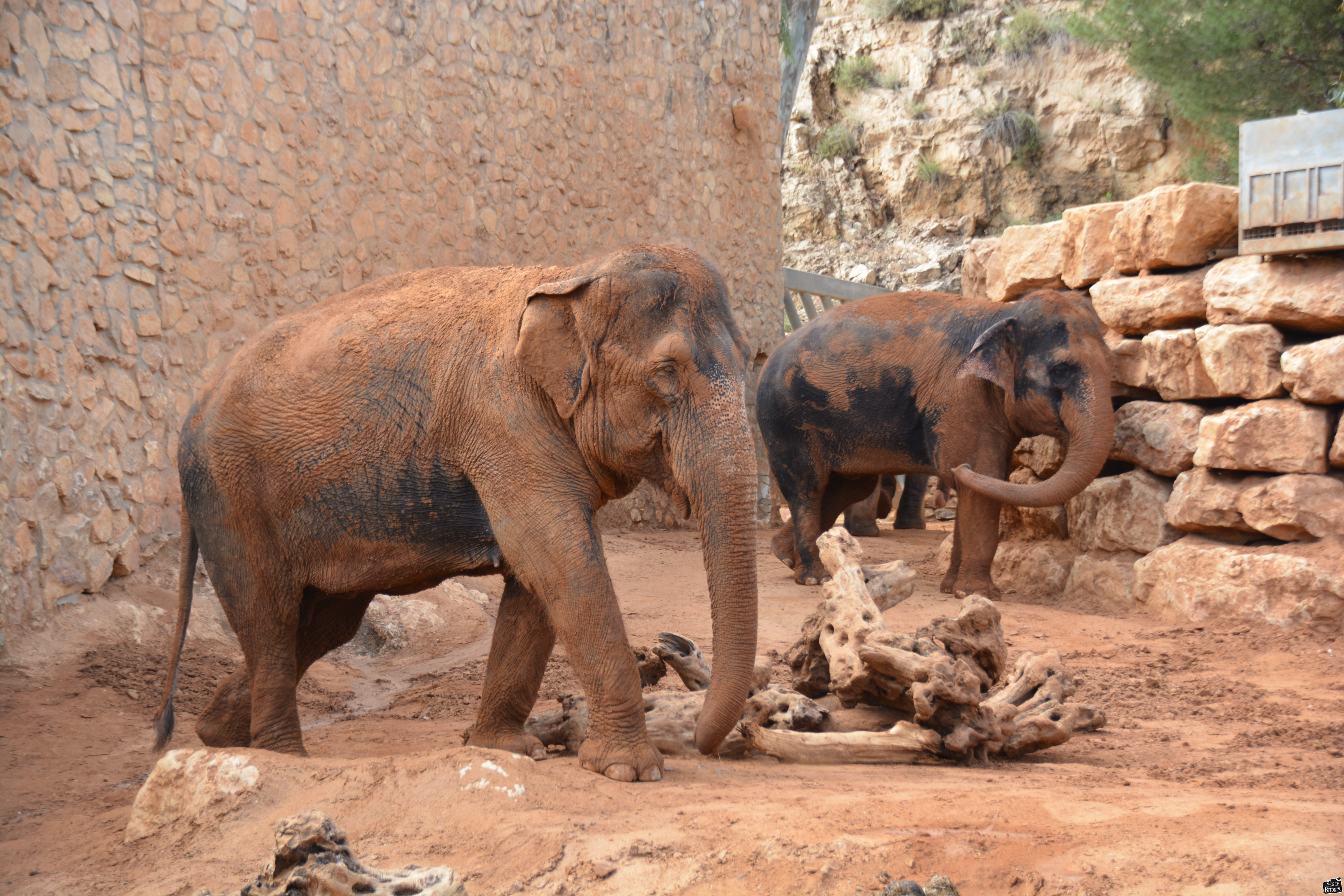 Biblical Zoo in Jerusalem